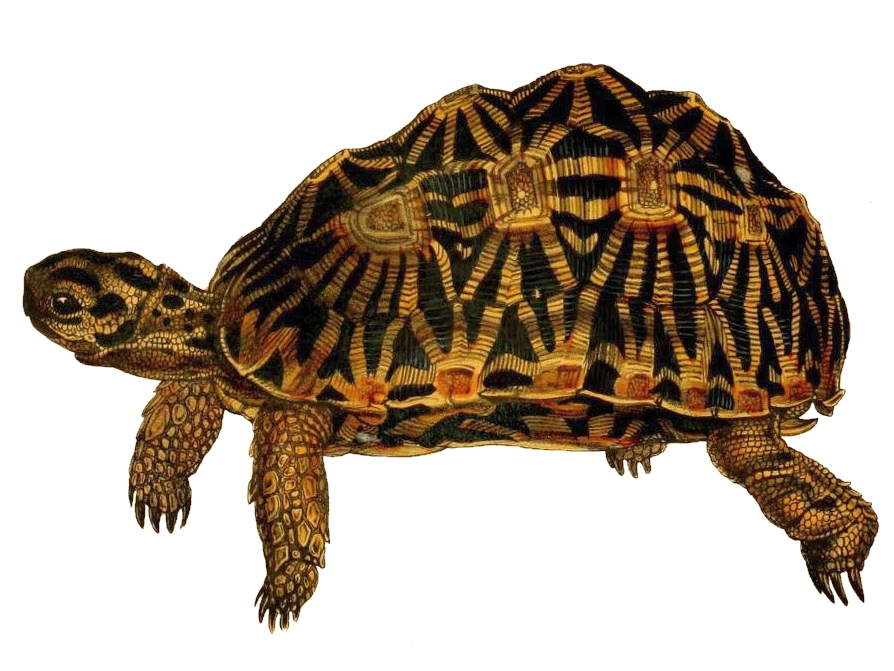 Tortoises, terrapins, and turtles London, Paris, and Frankfort :H. Sotheran, J. Baer & co.,1872.